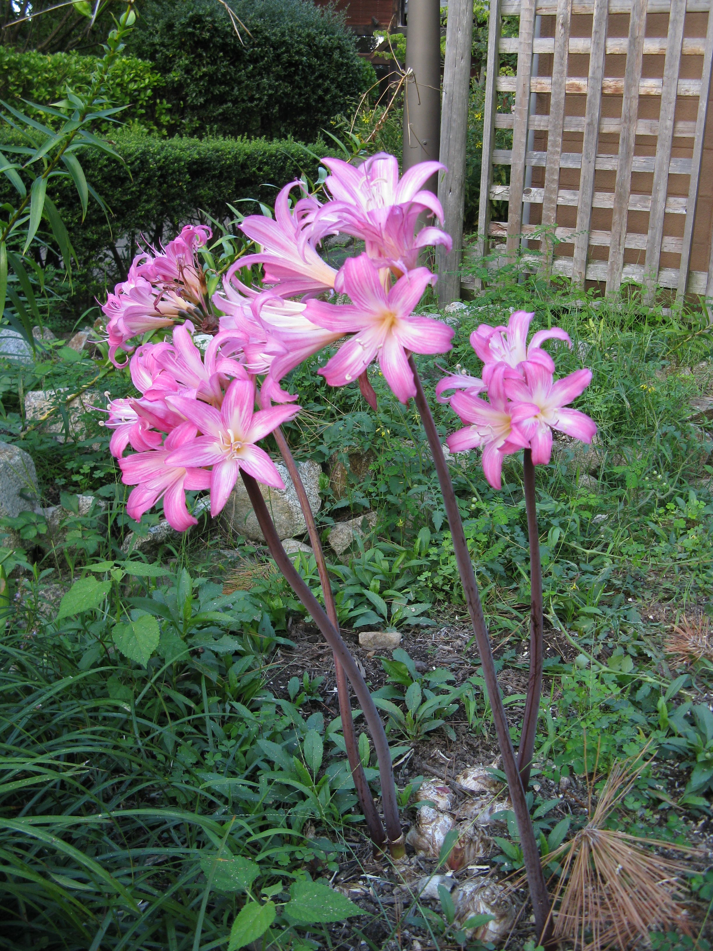 Place:Osaka Prefectural Flower Garden,Osaka,Japan Amaryllis belladonna